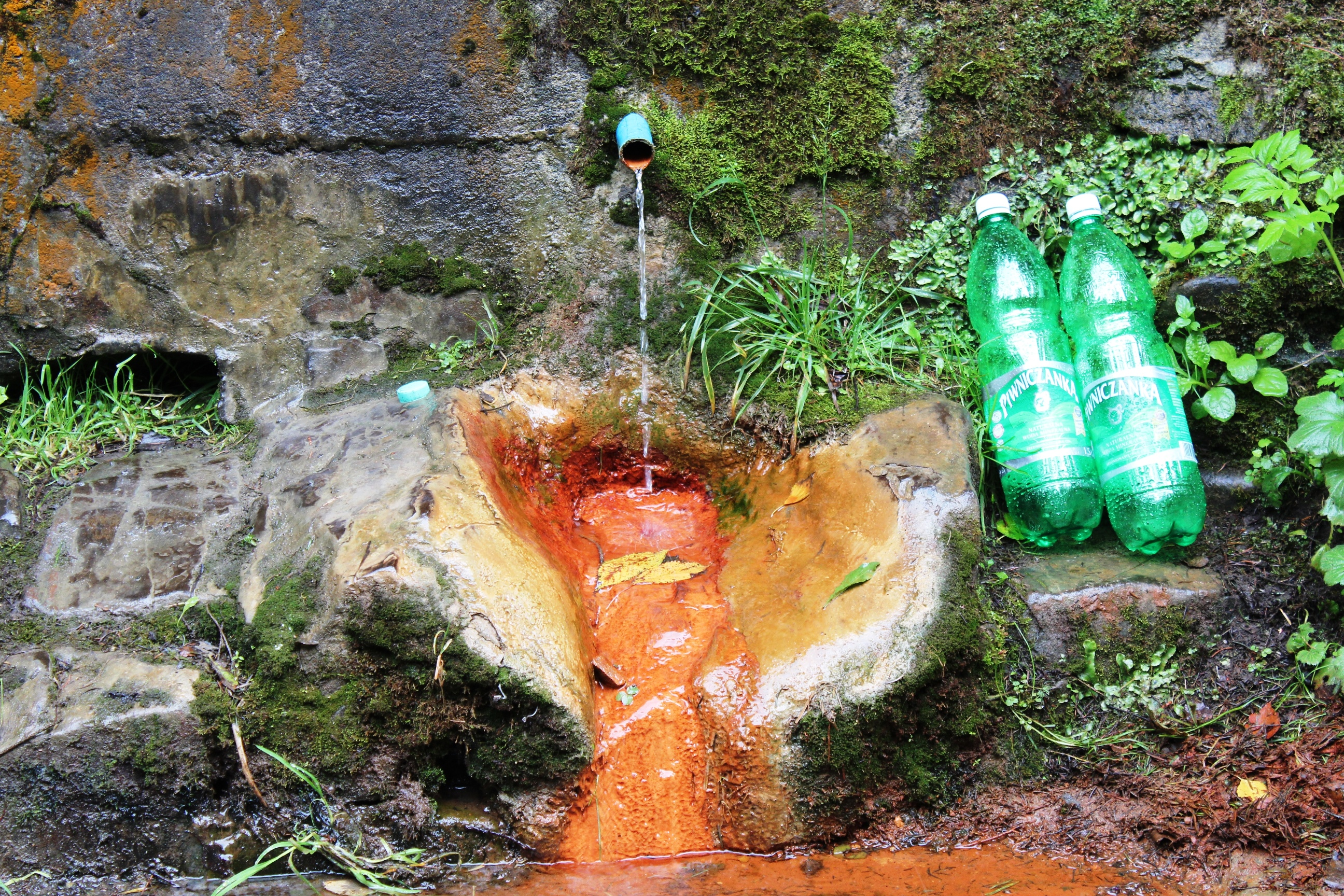 Stefan source in Łomnica-Zdrój